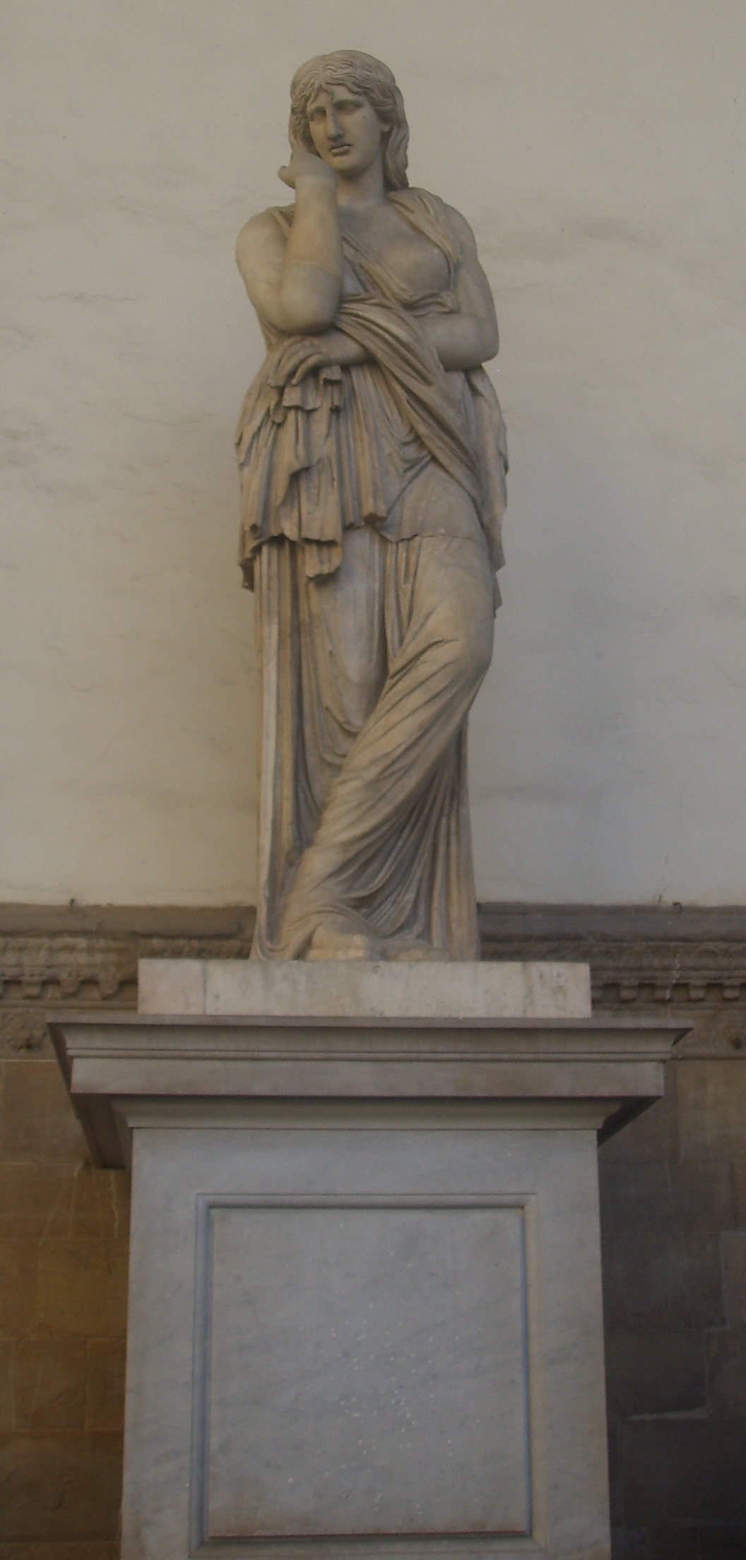 Loggia dei Lanzi (Loggia della Signoria) in Florence, Italy.